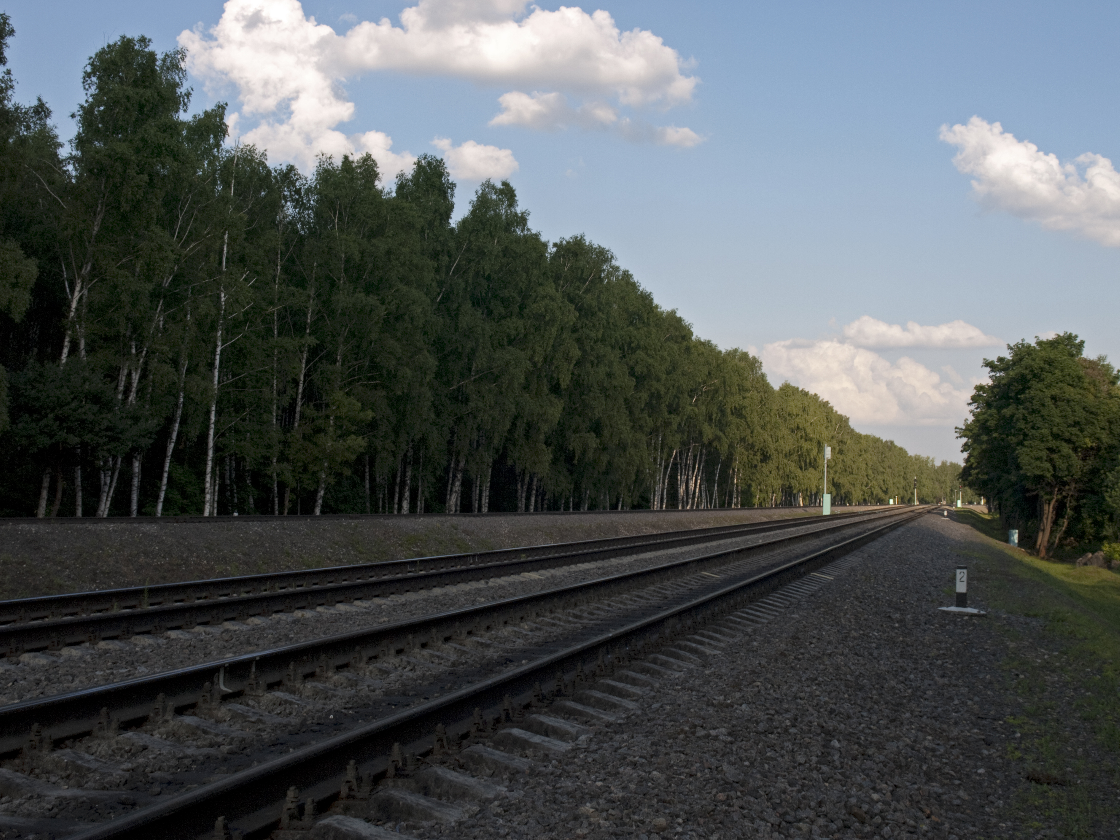 Moscow Little Ring Railway in Losiny Ostrov National Park, close to Belokamennaya Station (ahead)